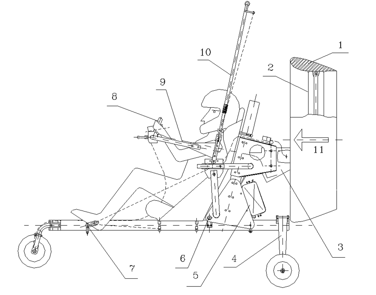 The vehicle’s carriage of parachute (according to P 146 033 patent description): 1- tunnel, 2 – counter-rotating ducted propellers, 3 - engine and toothed gear transmission, 4 - landing gear, 5 - fuel tank, 6 – the axis of vehicle’s carriage assembly, 7 – control system of parachute, 8 - lever of "gas”, 9 –bow-shaped handle of longitudinal control, 10 – thin lines of parachute, 11 - thrust.